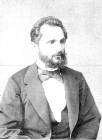 János Feketeházy Hungarian bridge construction engineer (1842 - 1927)